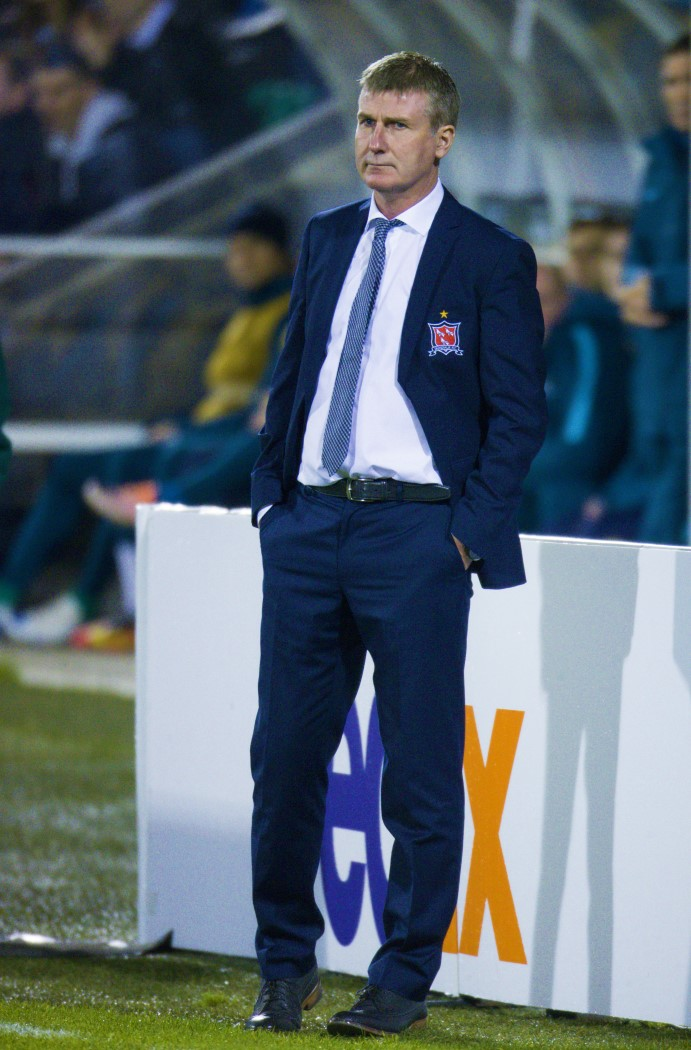 Stephen Kenny (footballer)